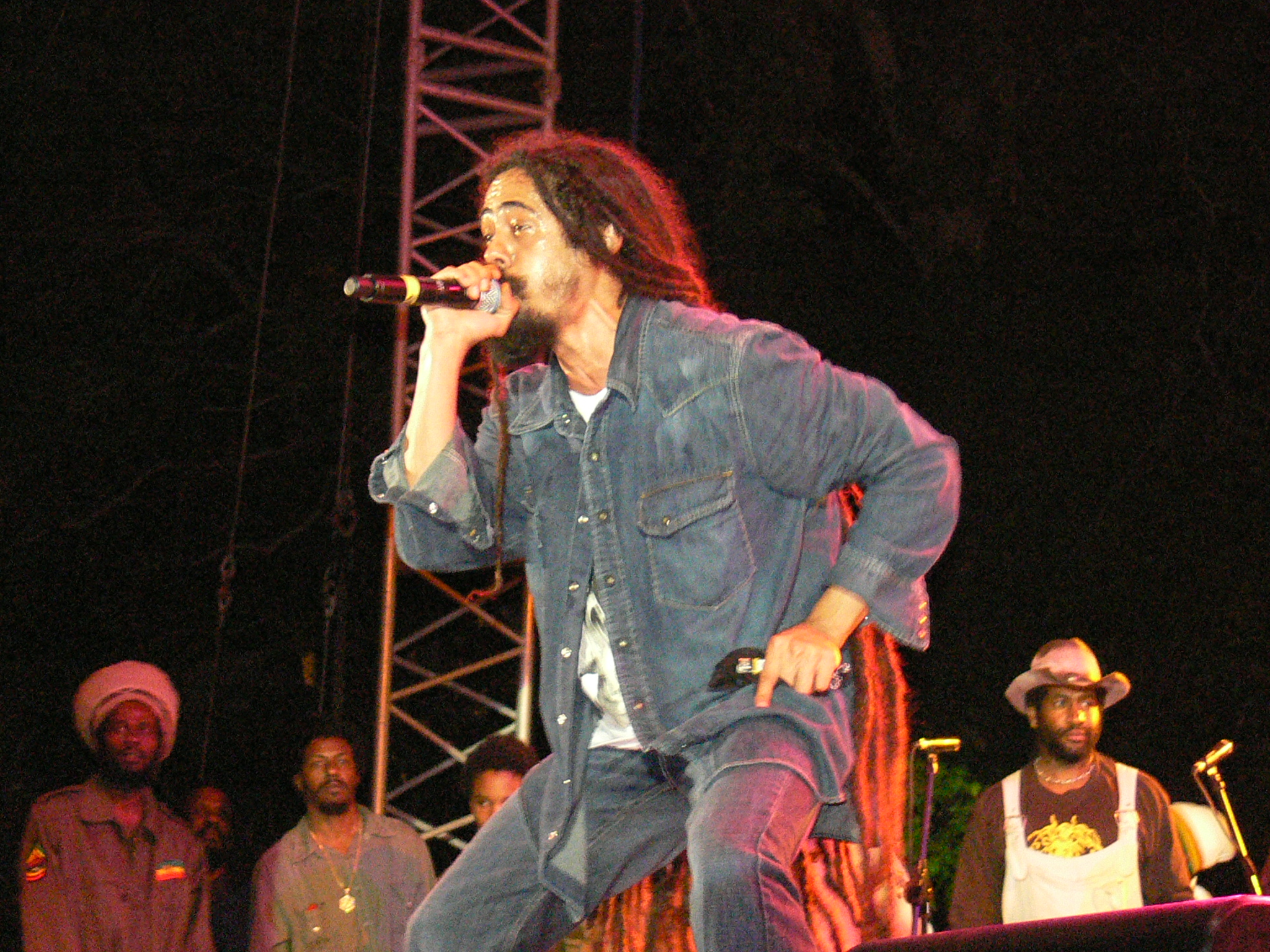 Photograph of Damian Marley performing at the 2008 Smile Jamaica Concert